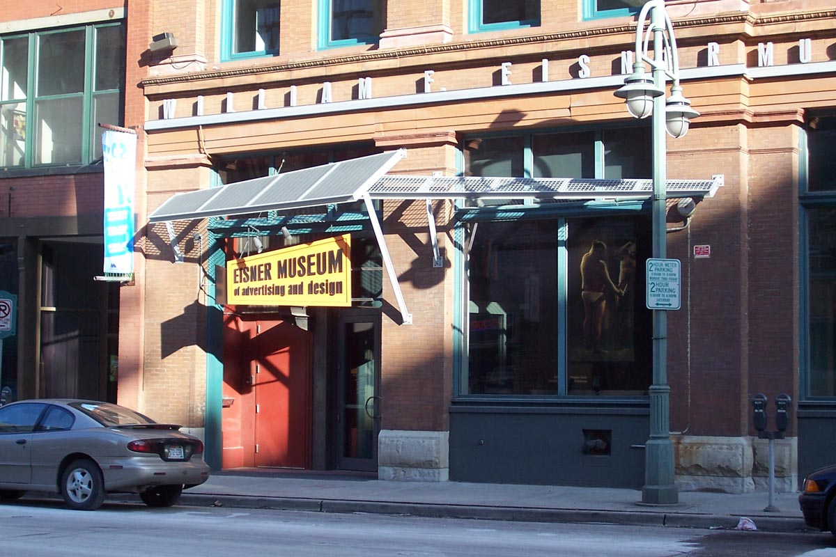 Copyright © 2006 Sulfur The William F. Eisner Museum of Advertising & Design is a one of a kind advertising museum located in downtown Milwaukee, Wisconsin.